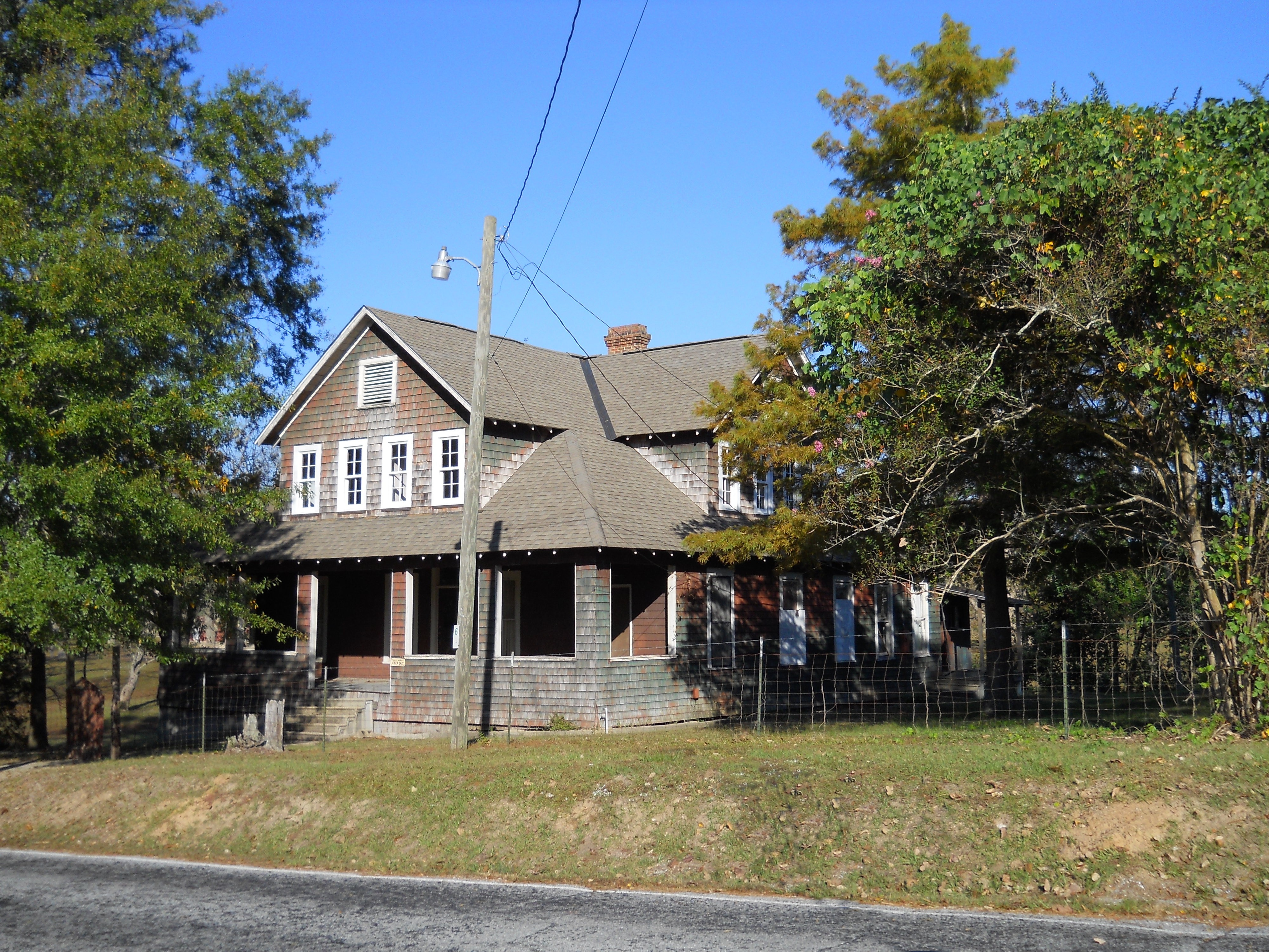 The New York Hotel is located in Fruitland Park, Mississippi. It was constructed in 1914 and listed on the National Register of Historic Places on April 8, 1999.